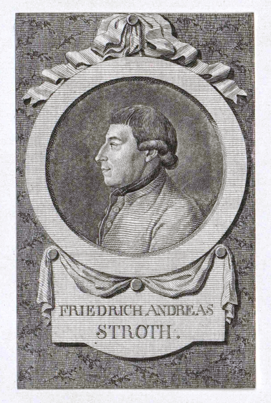 Friedrich Andreas Stroth (1750–1785)